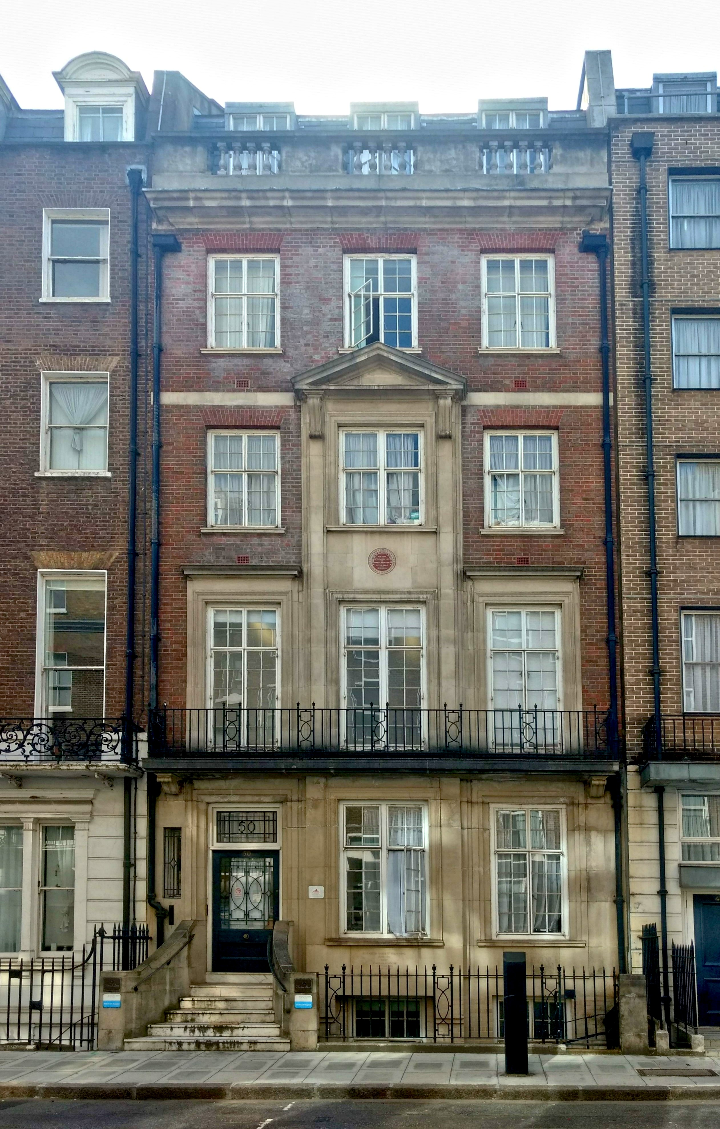 50 Wimpole Street Marylebone Aug 2018